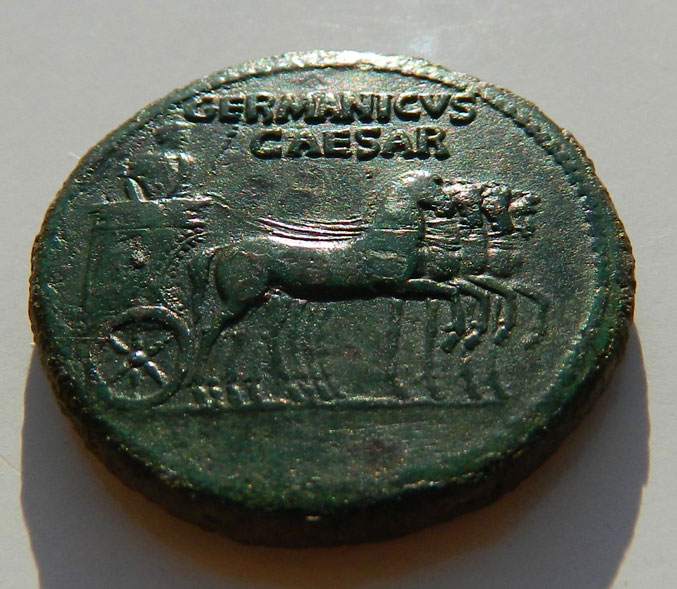 Сестерций времен Германика